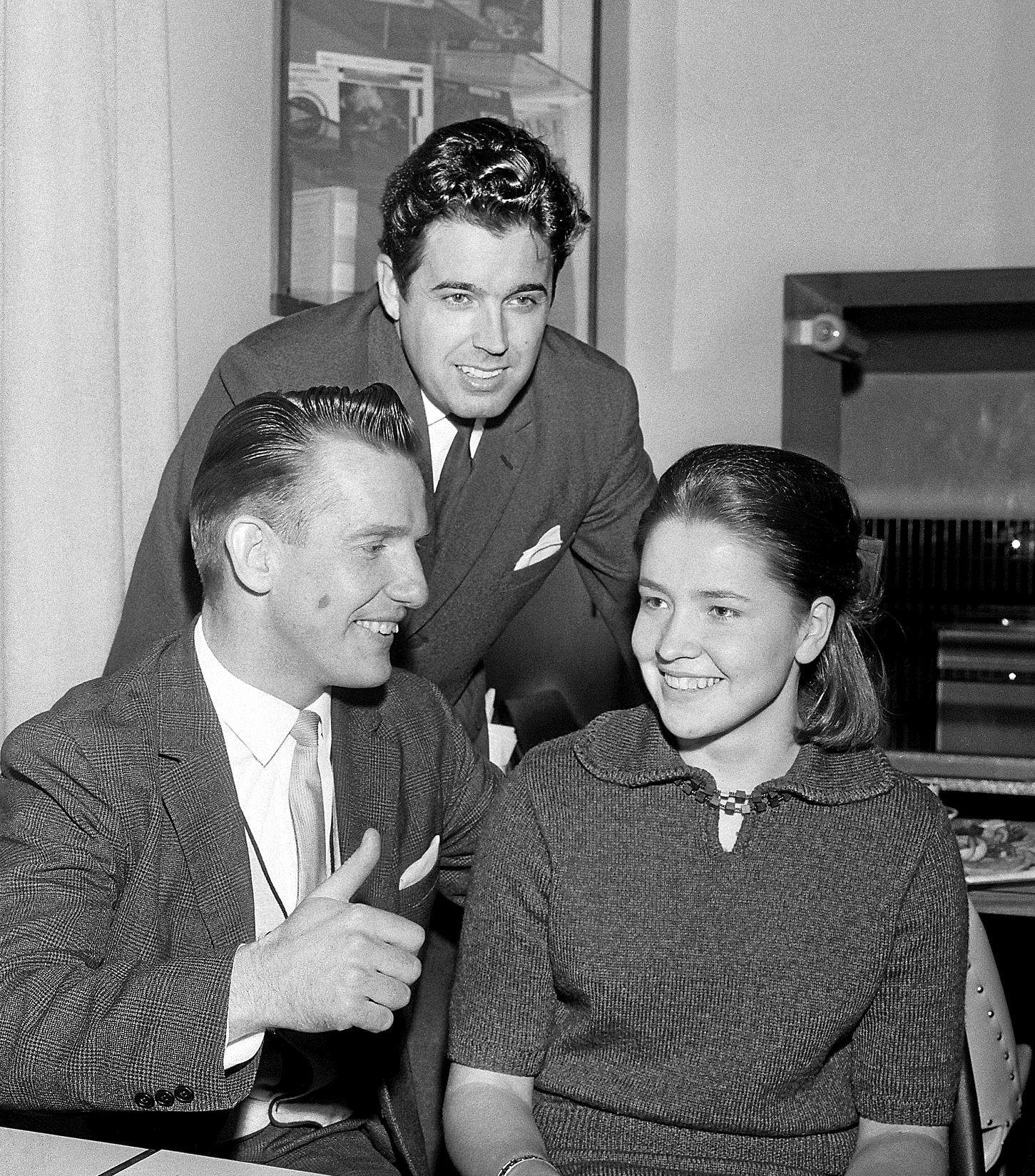 Photograph of the opera singers Caj Ehrstedt (left), Antti Kaleva (middle) and Irma Urrila (right) while they sang at the Finnish National Opera production of La Bohème.